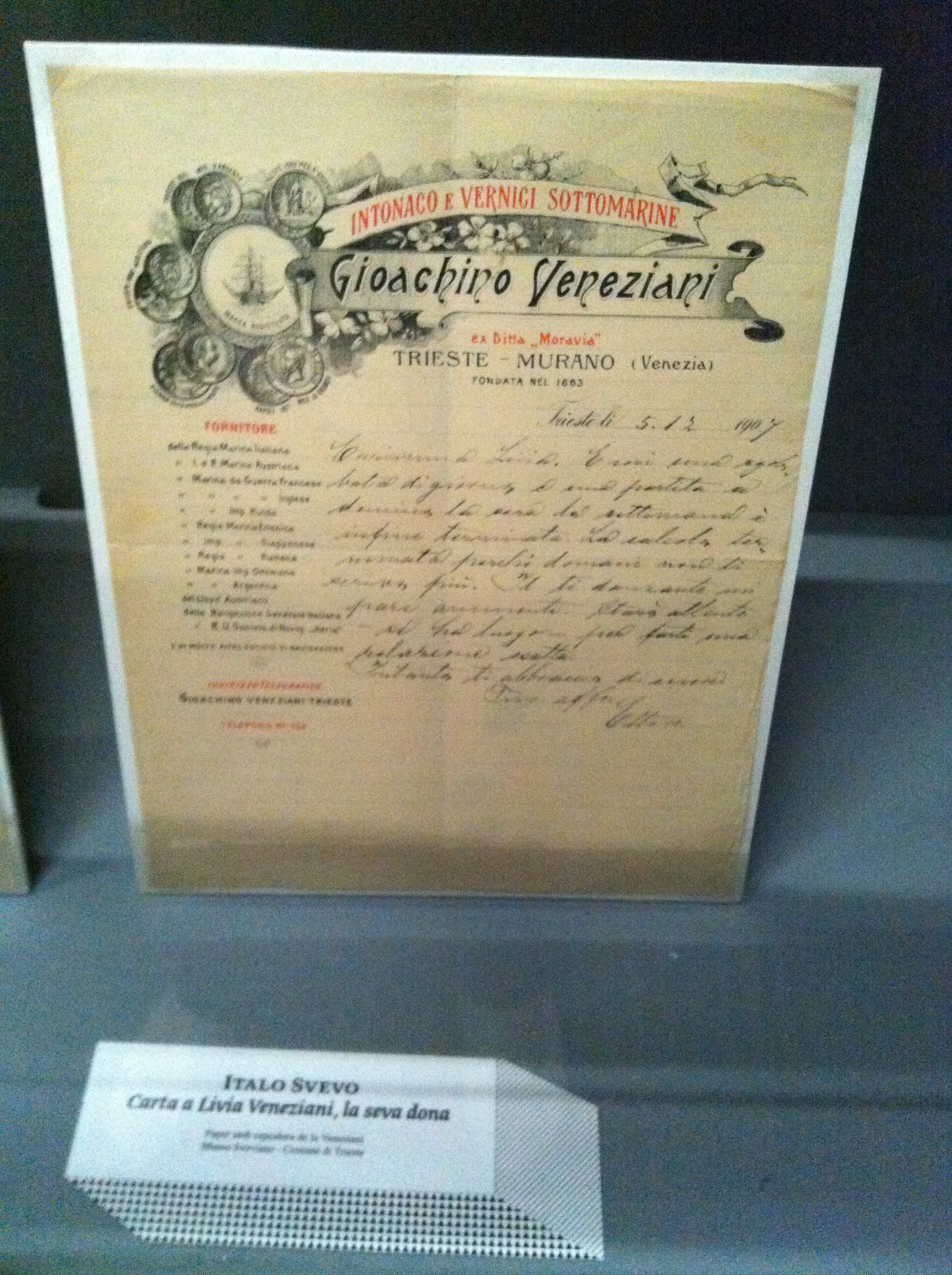 La Trieste de Magris. Exhibit about the Trieste of Claudio Magris, shown at CCCB during 2011